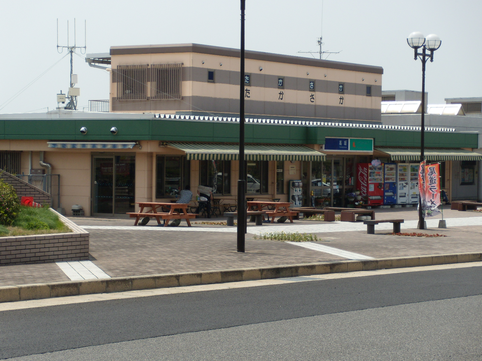 Takasaka Parking area at Sanyo Expressway.